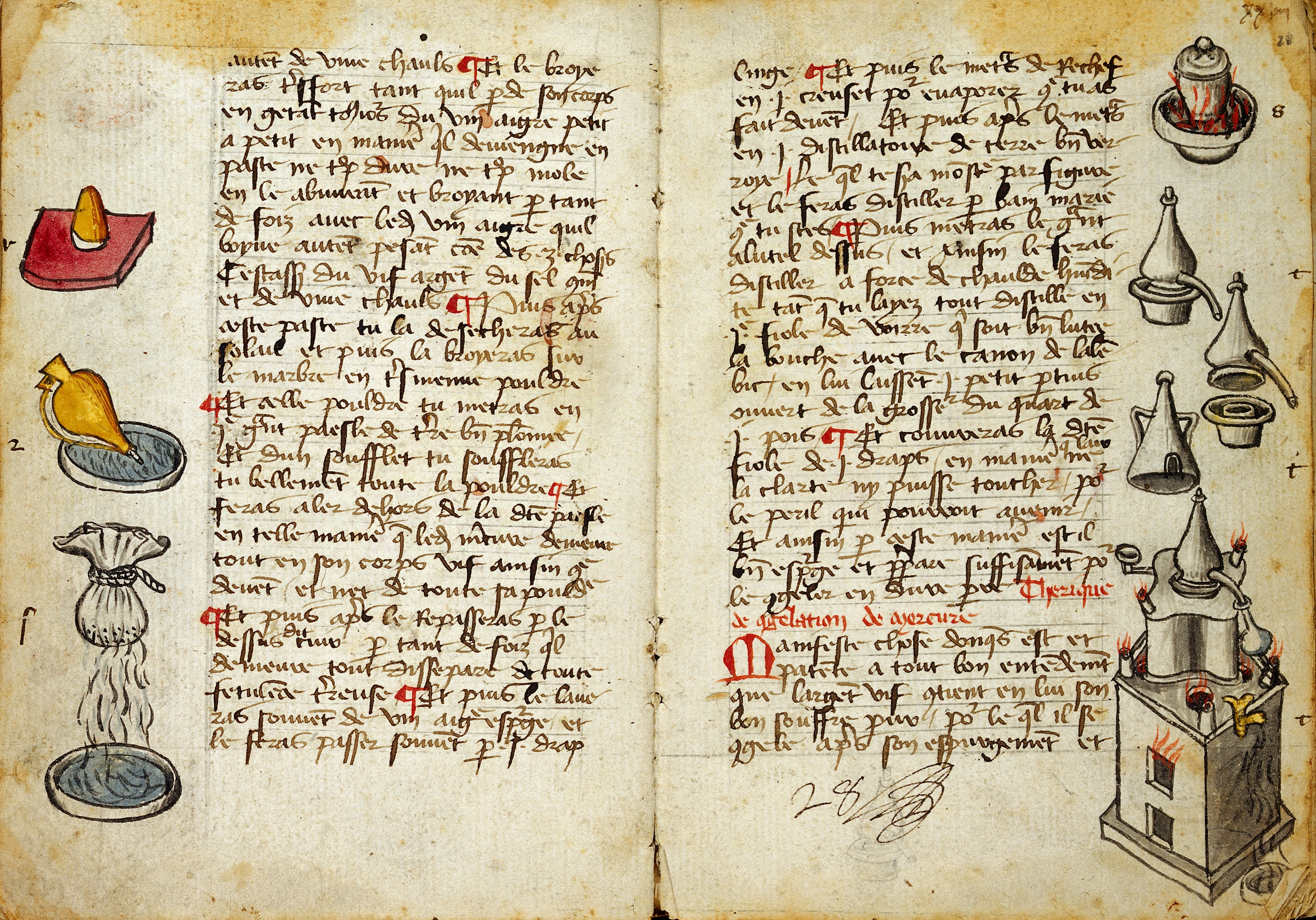 An illuminated page from a book on alchemical processes and receipts Archives & Manuscripts Keywords: lullius, raymundus; replication; Alchemy; cmac:wms 446